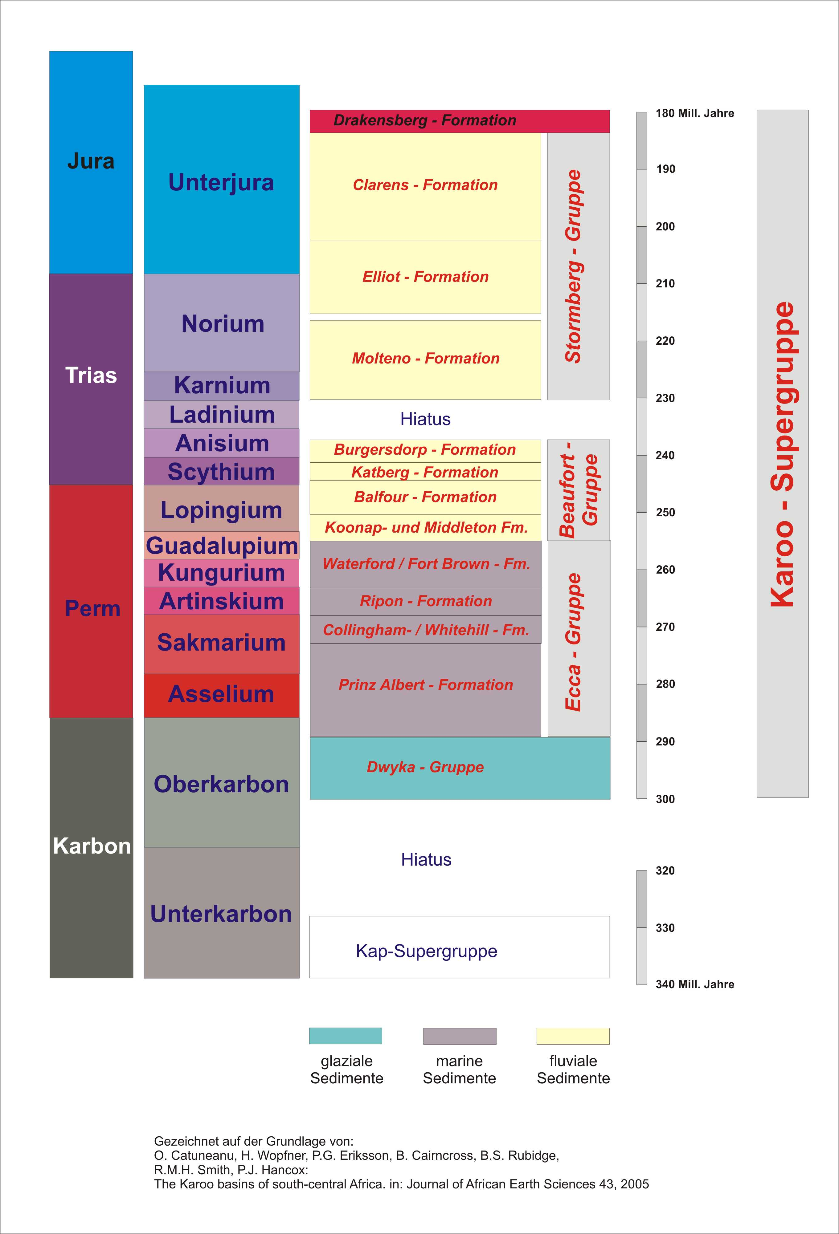 stratigraphy of Karoo group (South Africa)